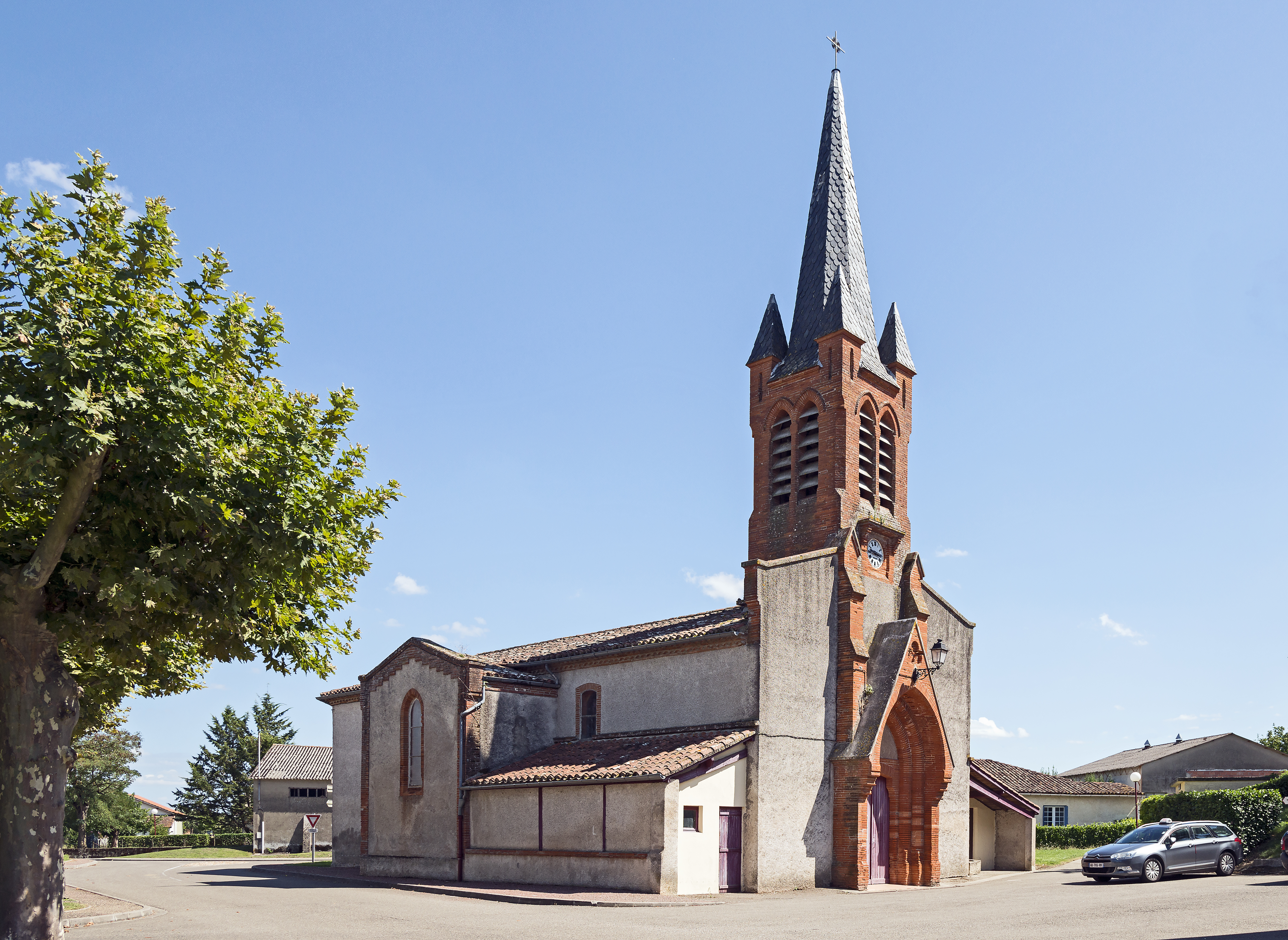 Montbartier (Tarn-et-Garonne). St. Martin Church. View towards Northwest. The bell tower by architect Gabriel Bréfeil.